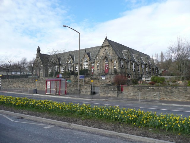 Littletown Junior & Infants School , Bradford Road, Liversedge “Boys” is in large letters in the left gable, and “Infants” in the right gable. Presumably the girls went in round the back.